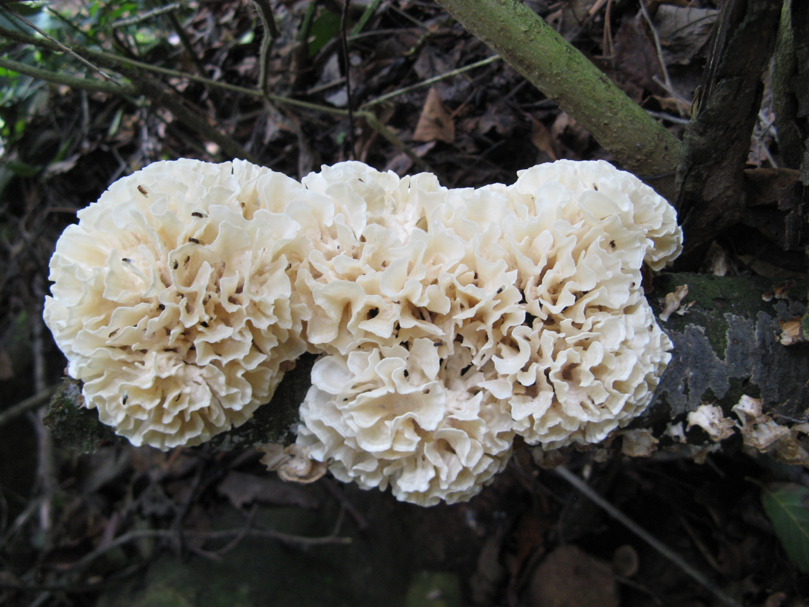 A fruit body of the fungus Hydnopolyporus palmatus. Photographed in Sierra de Quila, Jalisco, Mexico.